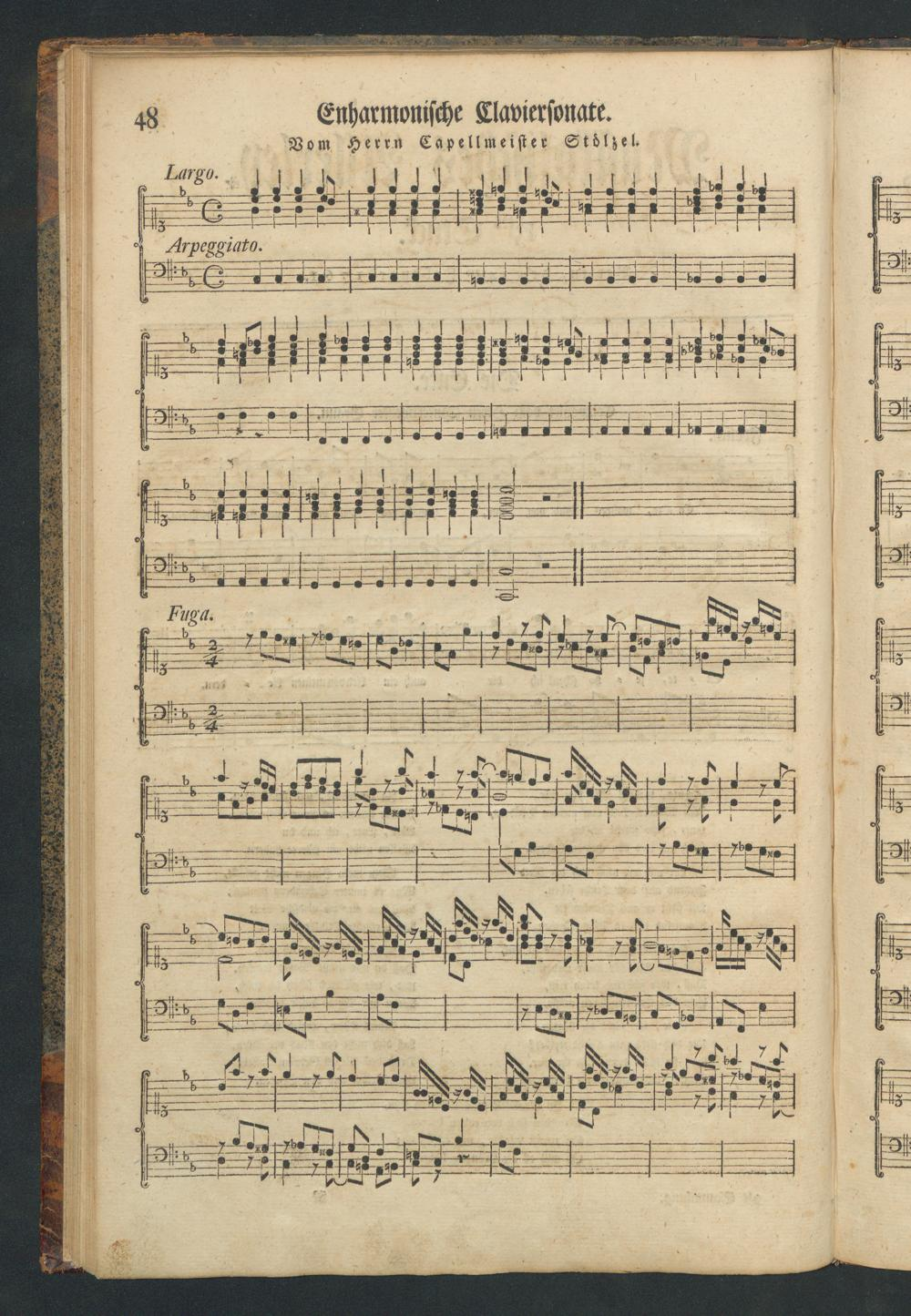 scores:Musikalisches Allerley (Various), Vol. 2, published by Friedrich Wilhelm Birnstiel (Berlin: 1761), p. 48, first of three pages containing Gottfried Heinrich Stölzel's Enharmonische Claviersonate (enharmonic keyboard sonata)